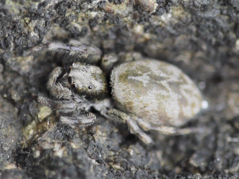 Female Hakka himeshimensis jumping spider found in Marblehead, Massachusetts. Still frame from video.